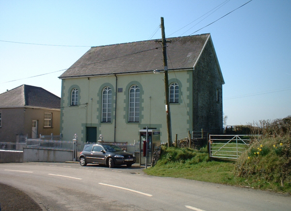 Blaen-y-coed Chapel